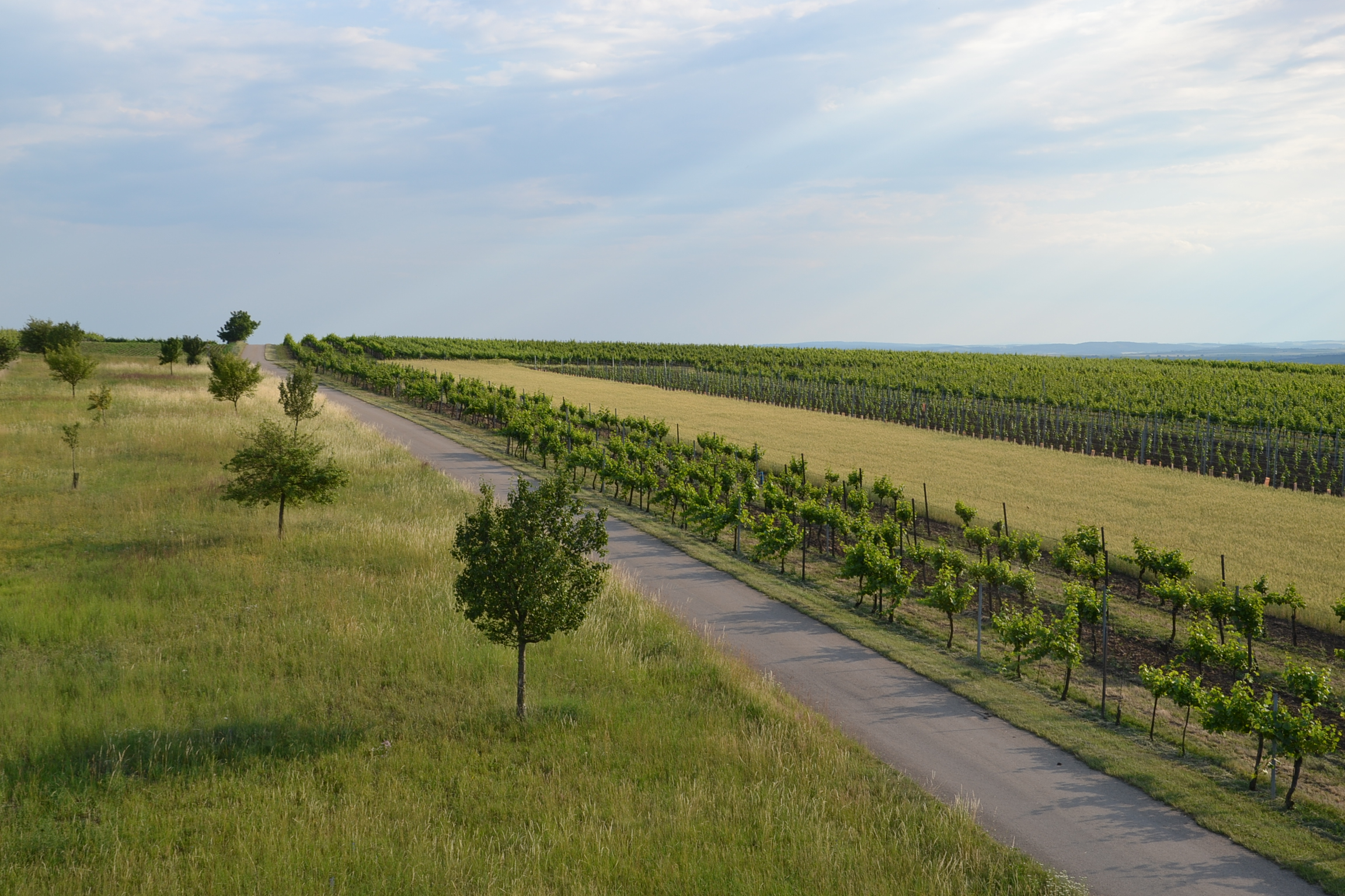 Austria - view from Südmähren Warte